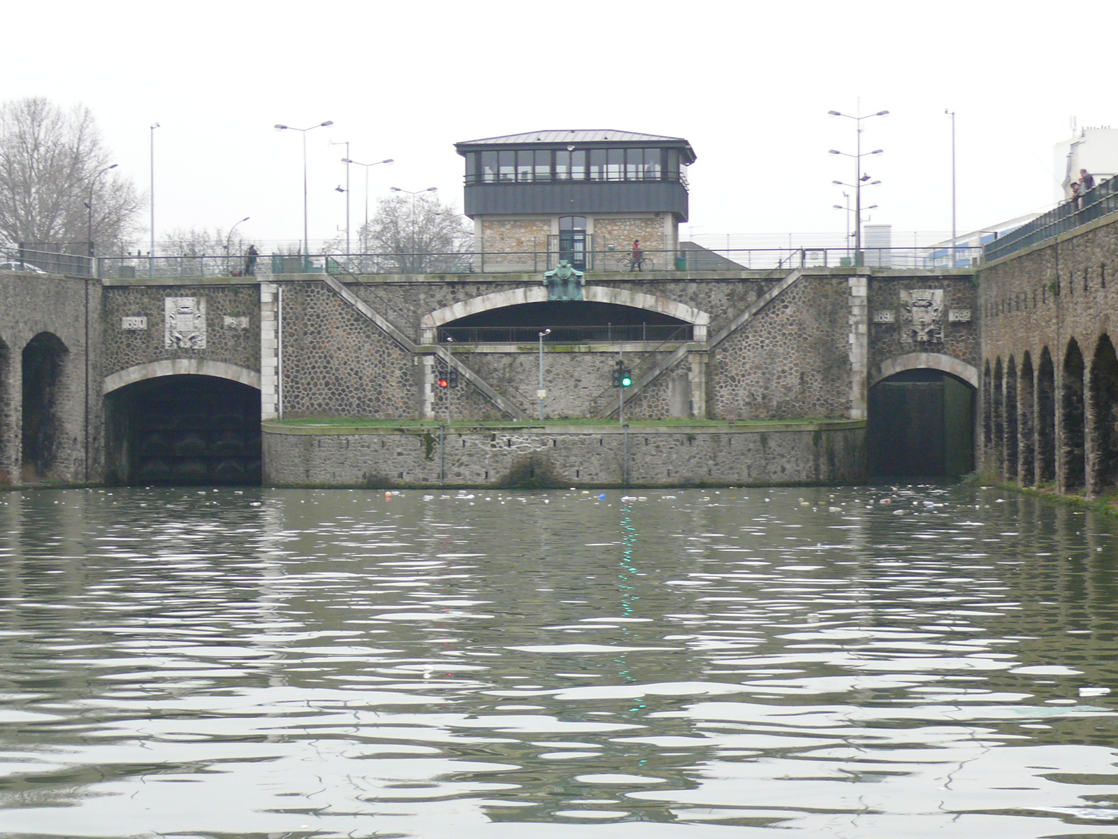 The Pont de Flandre lock in the Saint-Denis canal in Paris. This is the canal's first lock, bridging a change in water level of about 10 metres.